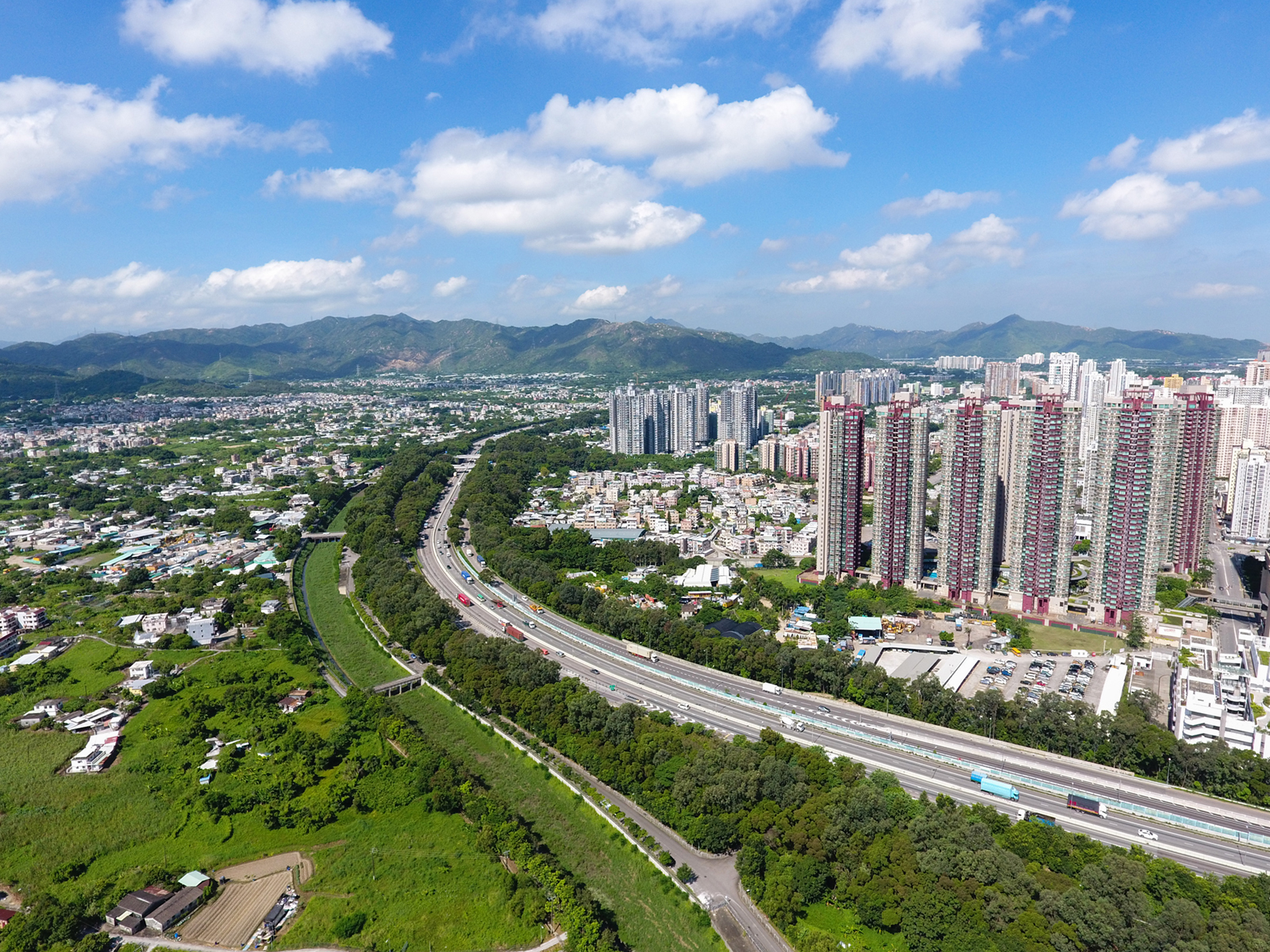 Yuen Long Highway